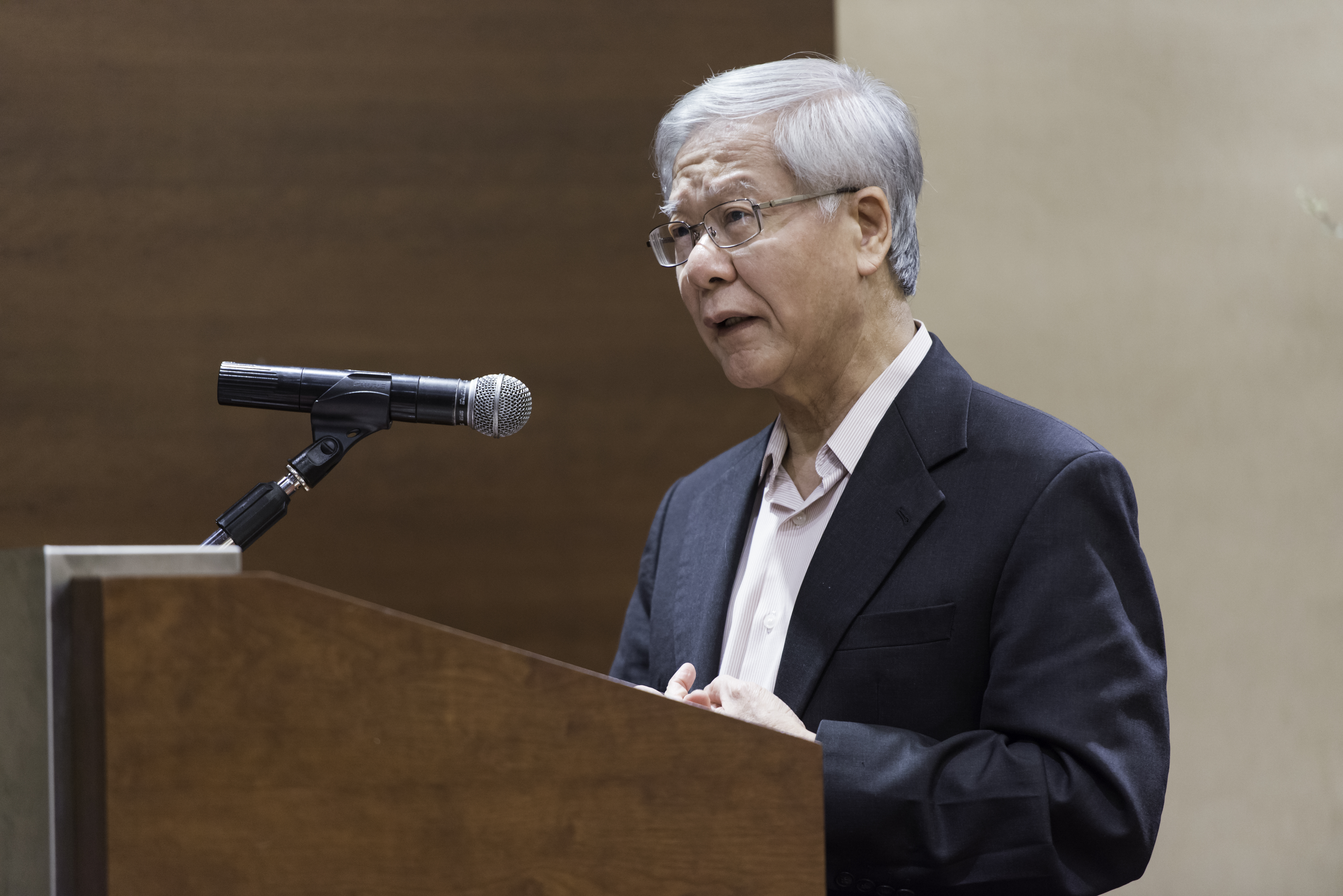 former attorney-general and chief justice of singapore chan sek keong